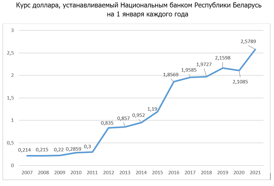 Exchange rate USD to BYN (2007—2019, including 2000—2016 in BYR)